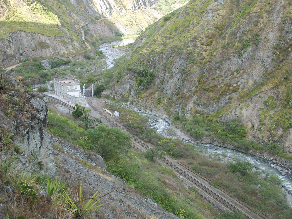 Former train station in Sibambe, Ecuador. It used to be a junction - the track on the left used to go to Cuenca, the one on the right to Durán for Guayaquil. During my visit, both routes were unpassable, the train station together with the whole town was abandoned (no roofs, etc.) and only tourist trains for Devil's Nose (Nariz del Diablo) from Riobamba via Alausí made a short stop here before returning back.